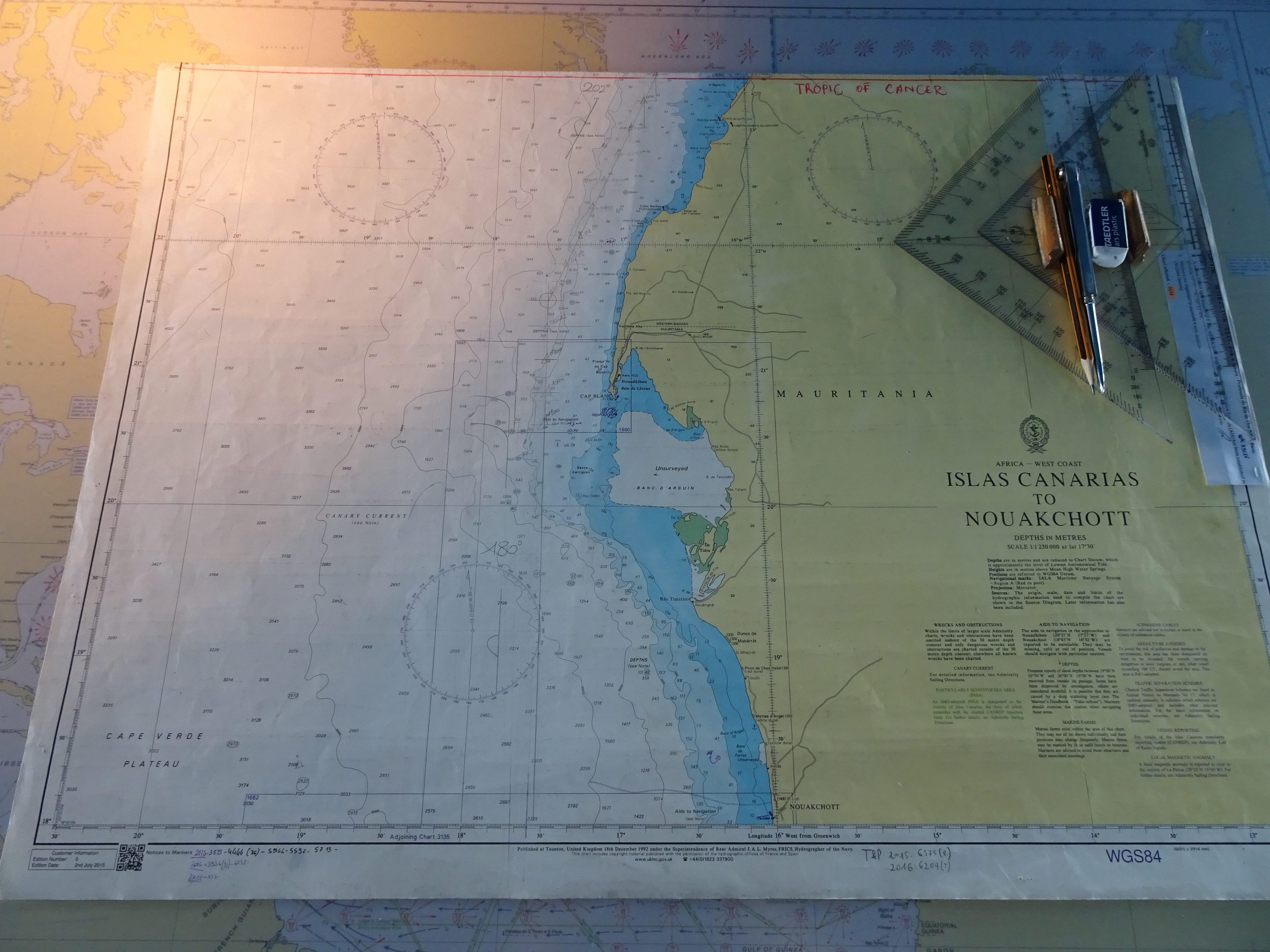 Maritime map of the Mauritanian coasts in West Africa